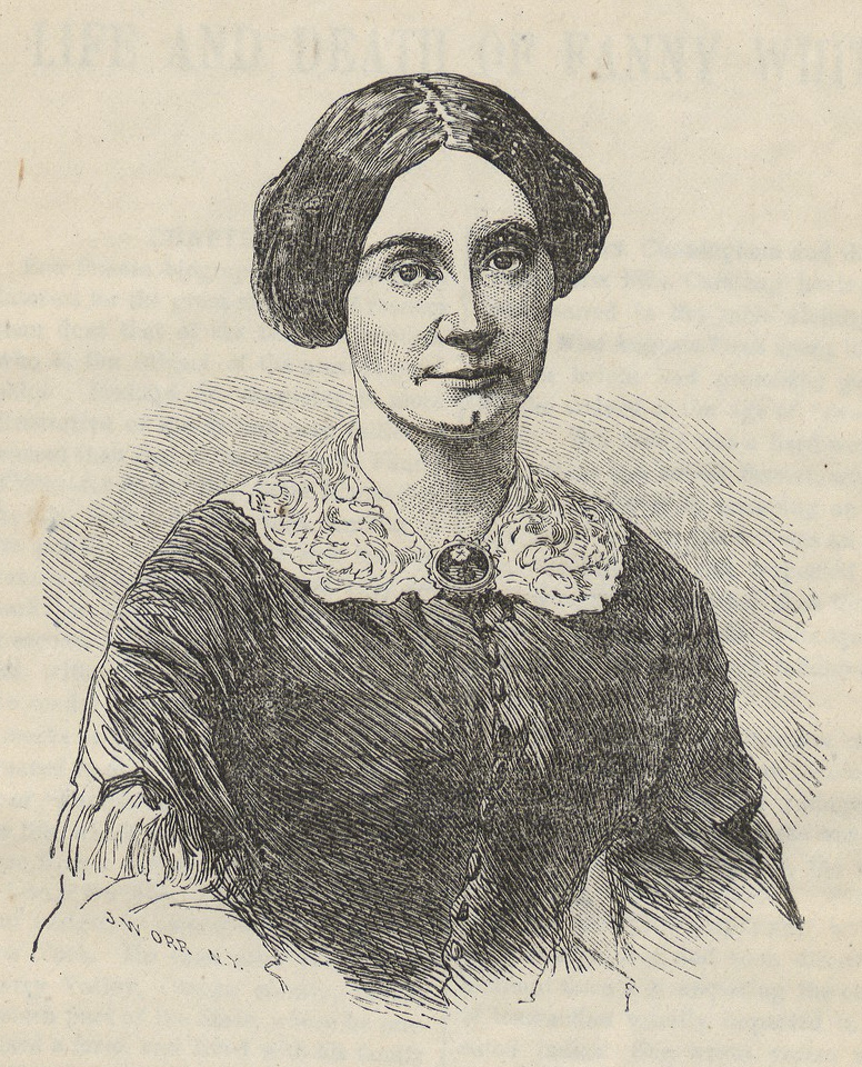 Engraving of Fanny White